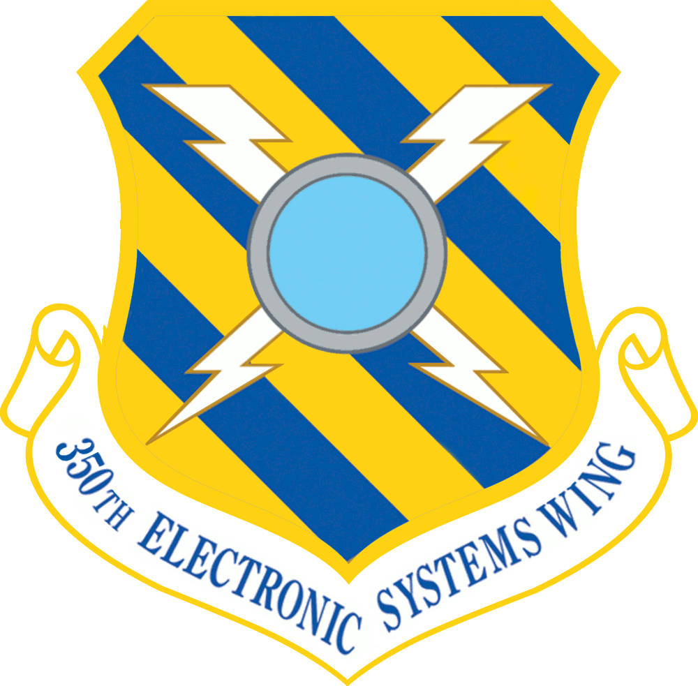 Emblem of the 350th Electronic Systems Wing, a wing of the United States Air Force